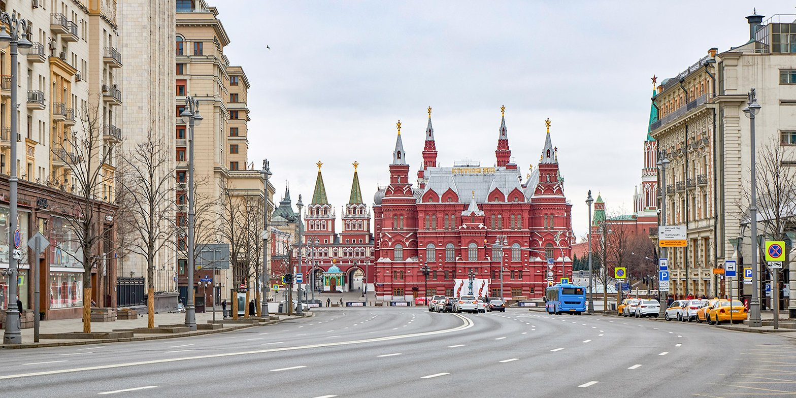 Tverskaya Street in Moscow